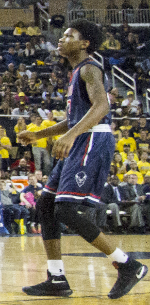 Michigan vs Howard basketball 2016